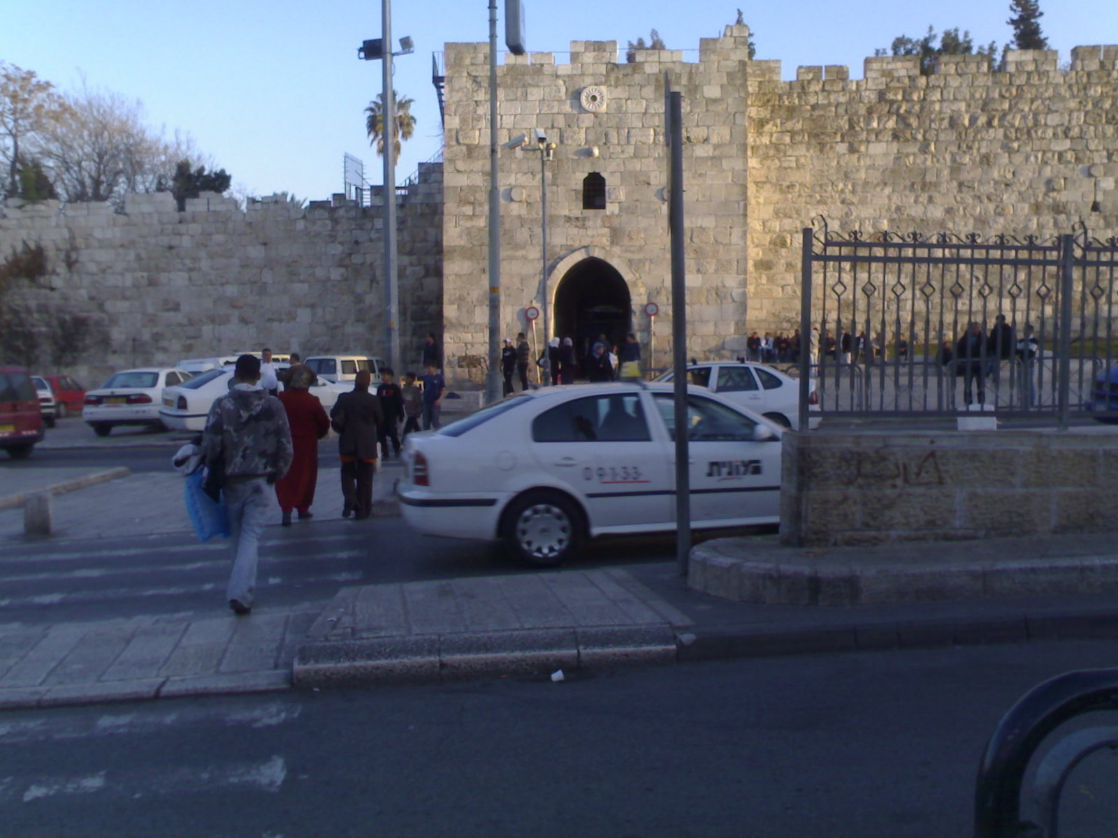 Bab El Zahera (Herod's Gate)